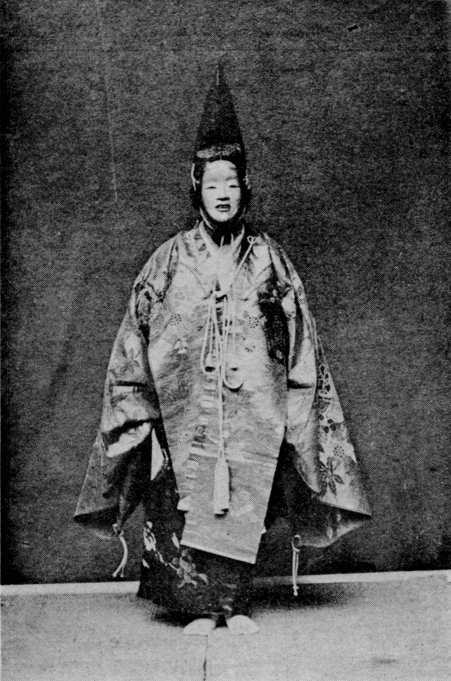 Japanese Noh actor SAKURAMA Banma(1835 - 1917), in Kashiwazaki (play)